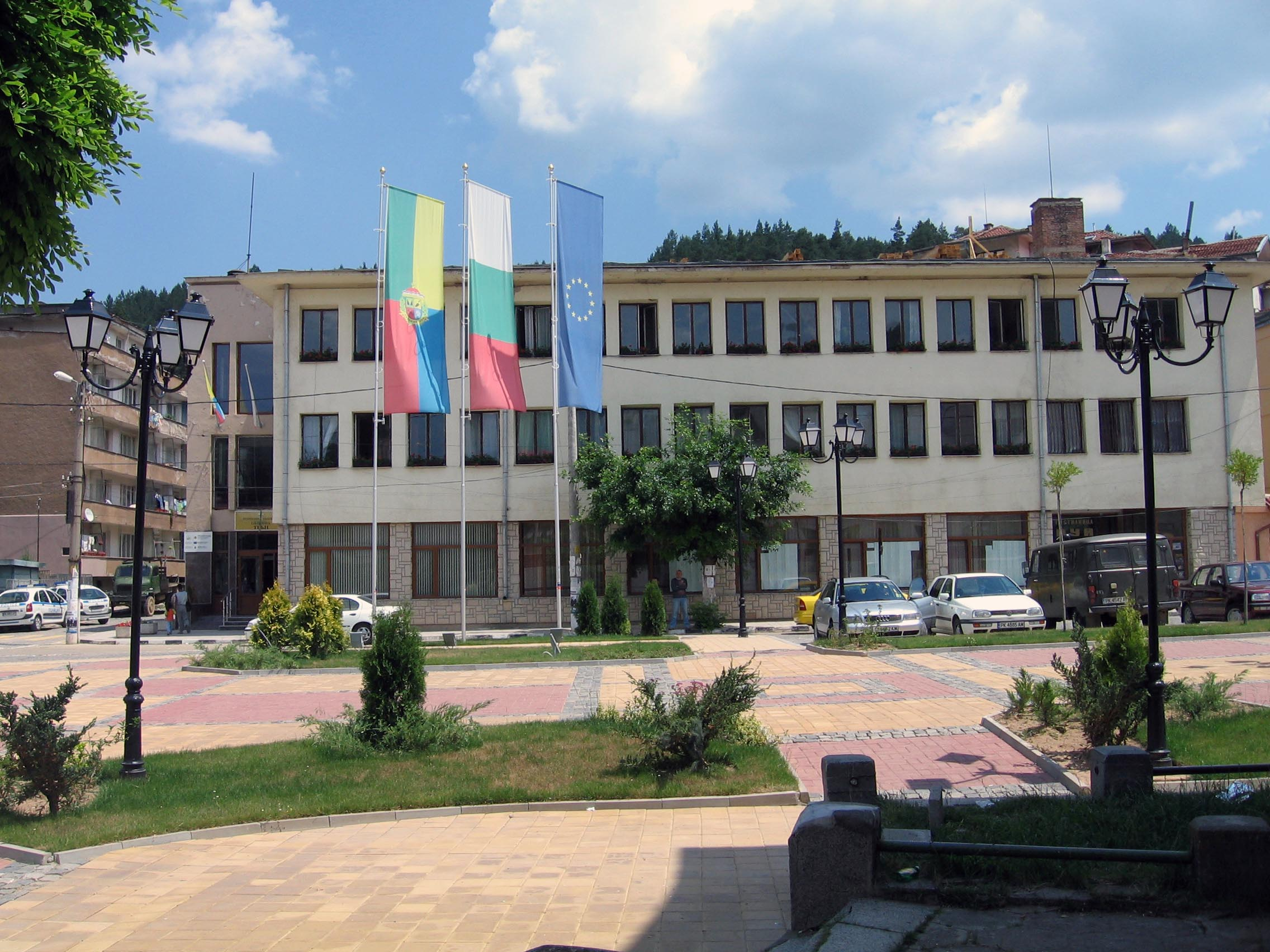 Tran Municipality Building, Bulgaria